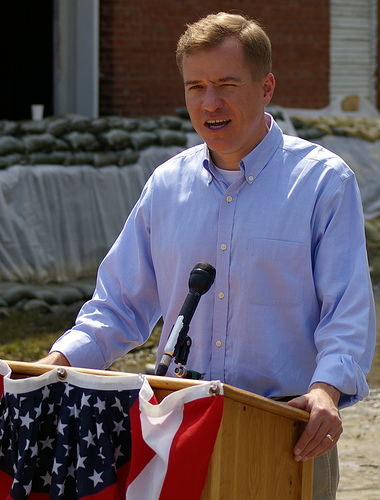 Missouri Governor Matt Blunt addresses the media and citizen of Louisiana regarding the rising waters and the state's commitment to help with recovery efforts. -Marianne Everhart, EAGLE 102